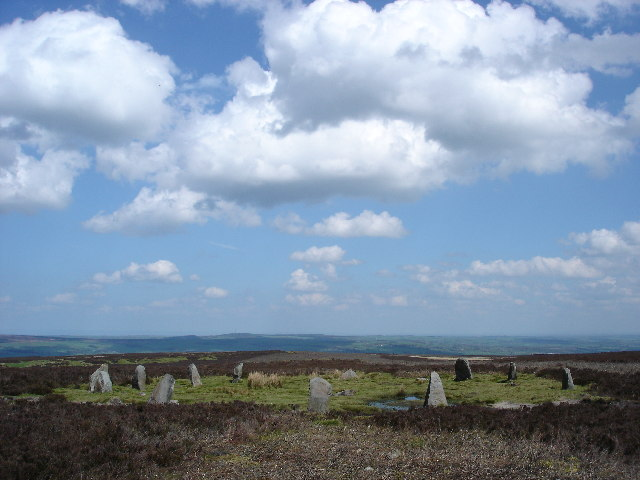 The Twelve Apostles of Ilkley Moor Stone Circle. After yomping with 5 kids to the circle over a bog marked danger on the OS map. The ranger told us he'd been there till 9pm the night before pulling scouts out of the bog.